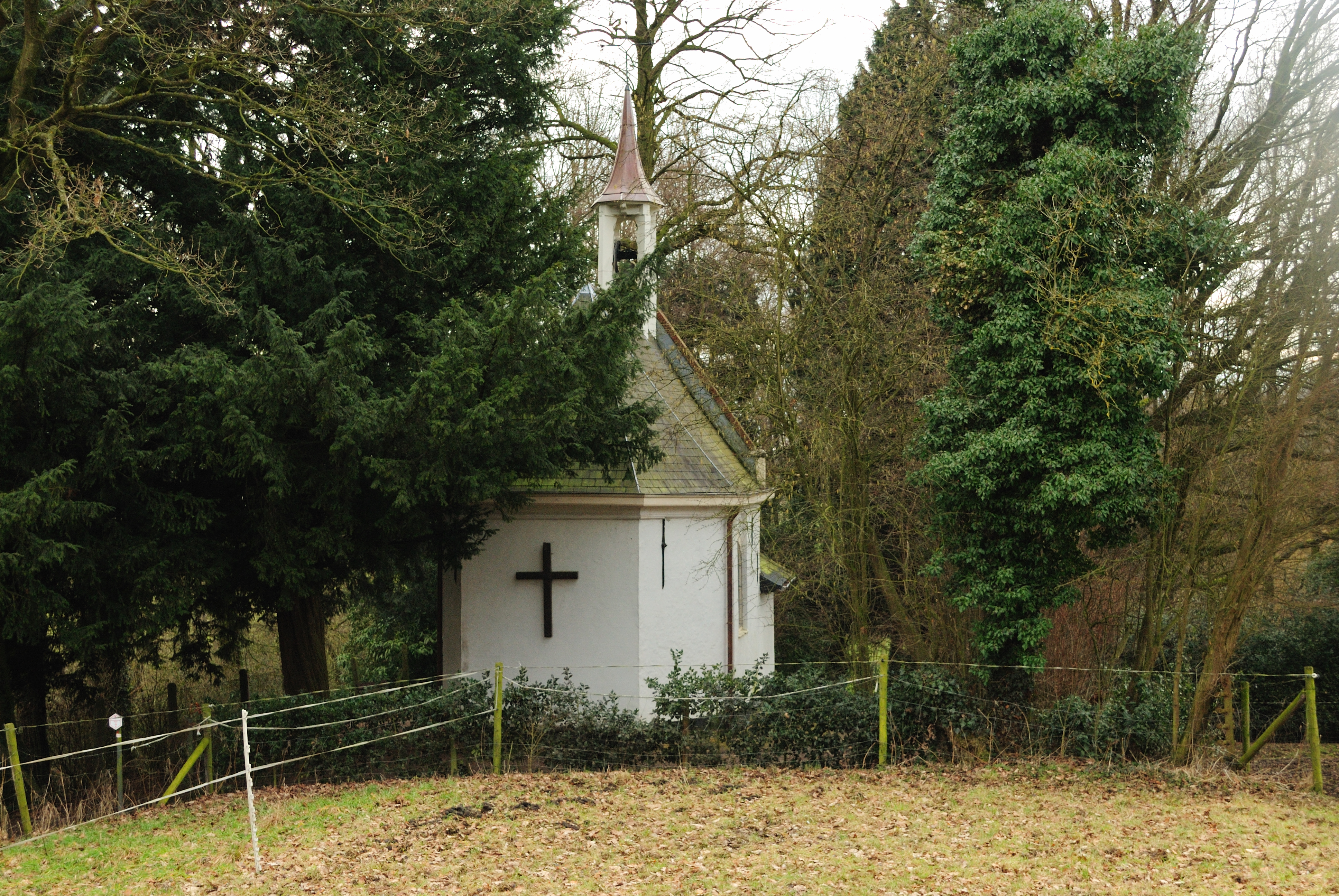 Kruisborre chapel at the town of Asse, Belgium; view from the back (North) side. Nikon D60 f=32mm f/6.3 at 1/160s ISO 400. Processed using Nikon ViewNX 1.5.2.